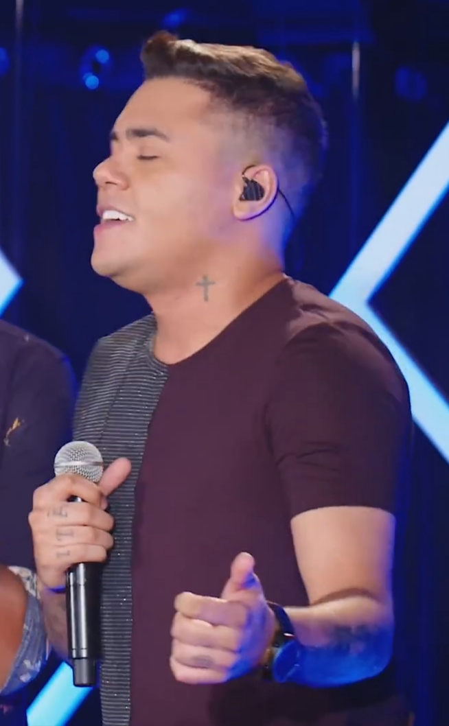 Felipe Araújo em 2019